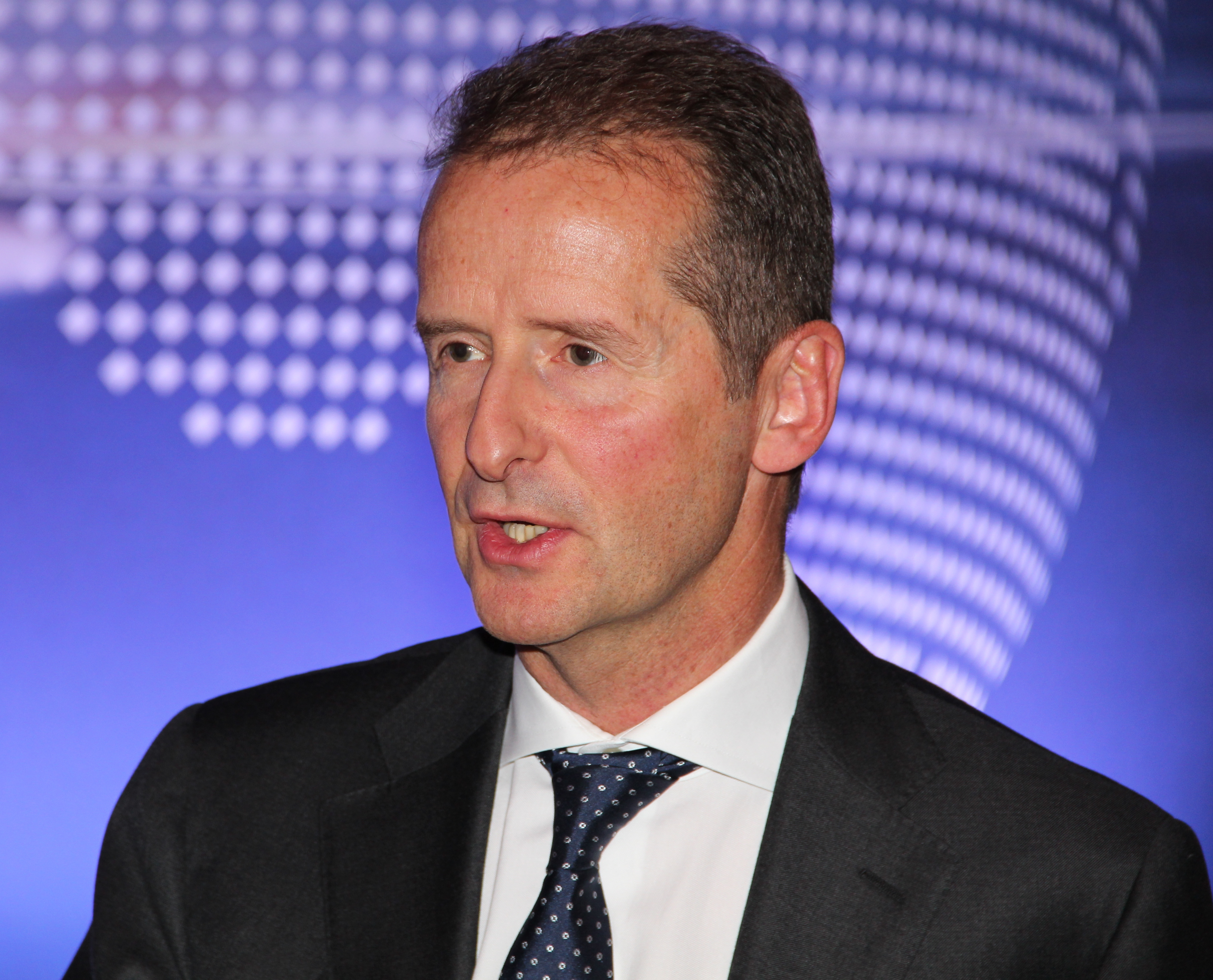 Herbert Diess, Member of the Board of Management at BMW Group (Germany) - during the Electromobility Summit in Berlin 2013